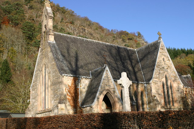 The church at Weem